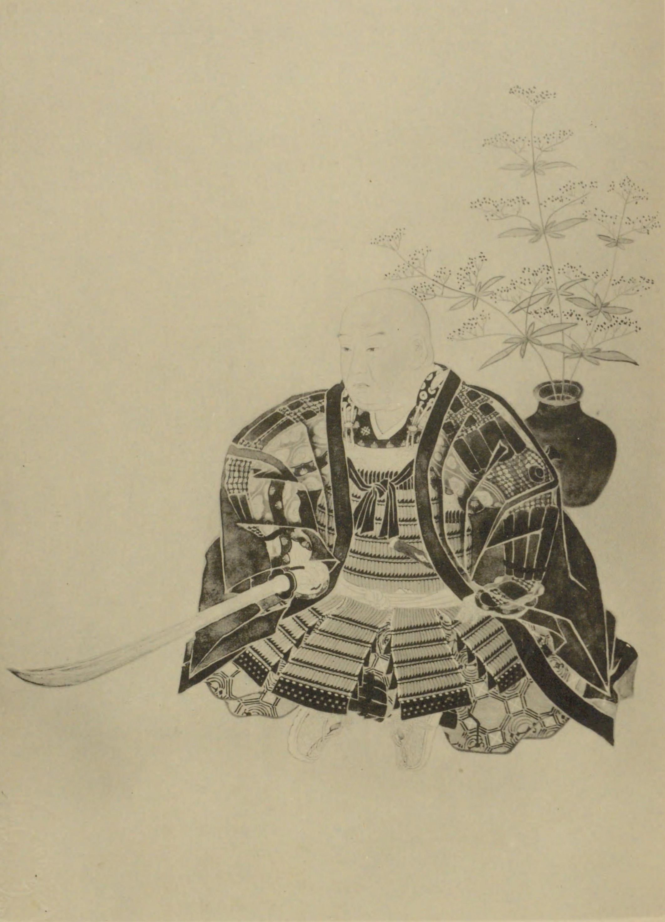 Portrait of Izawa Ranken